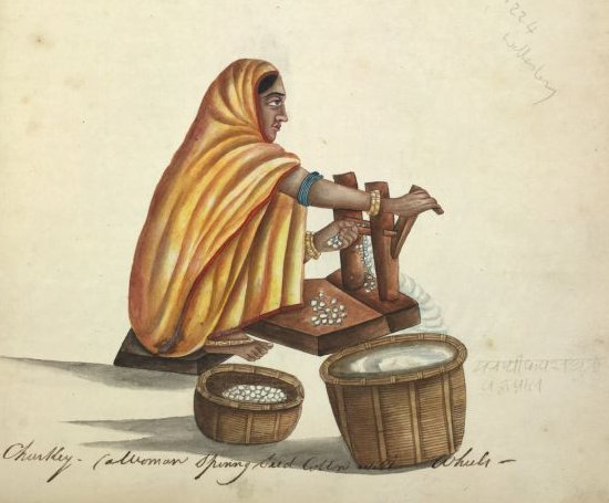 This painting depicts a woman turning rollers to separate the cotton fibres or lint from the seeds, a process called cotton-ginning. The cleaned cotton would then be spun into yarn, using charkhas or spinning wheels.